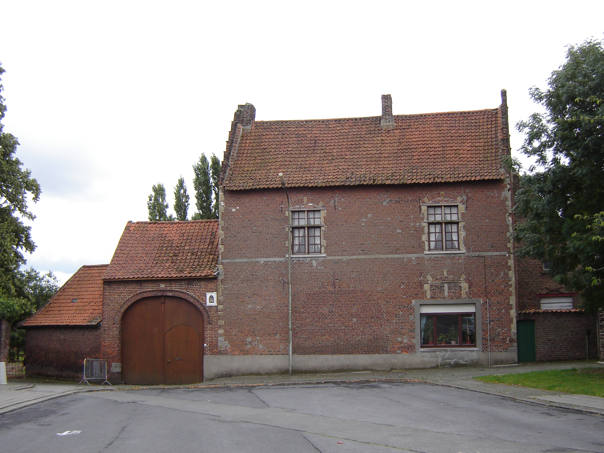 "Kasteelhof" farm, located behind the church. Rekkem, Menen, West Flanders, Belgium